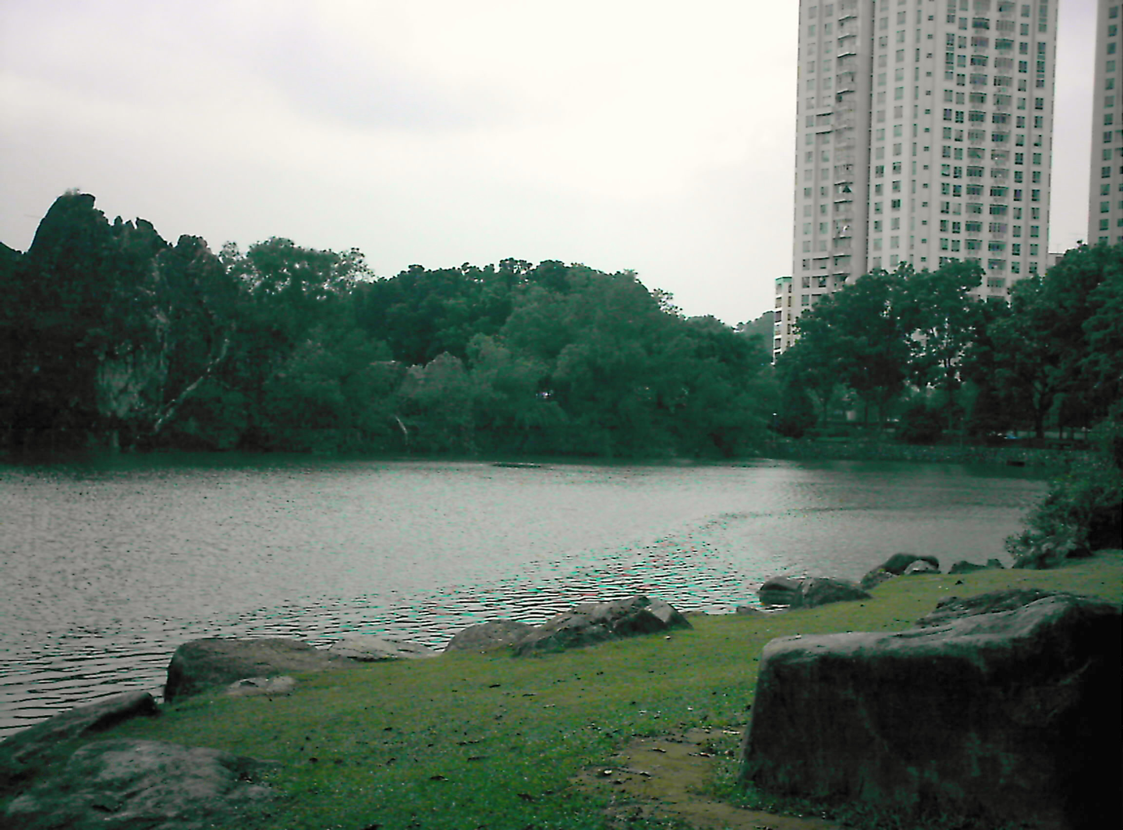 Little Guilin in Bukit Batok Town Park, Singapore 中文（香港）: 星洲小桂林：武吉巴督市鎮公園